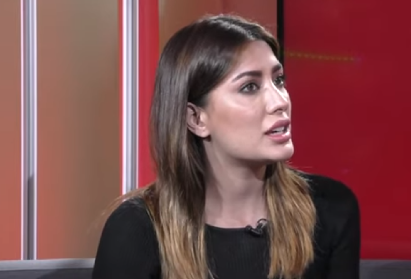 Mehwish Hayat, Pakistani Actress.